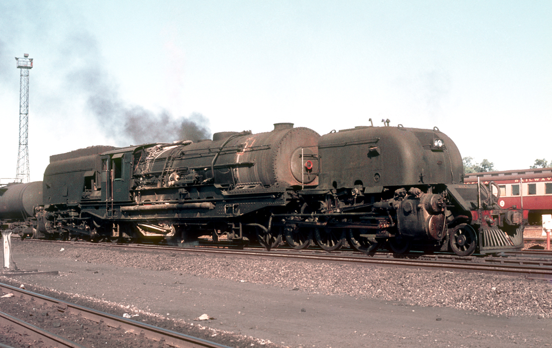 Class GMAM no. 4065, leased to Zimbabwe Railway, at Bulawayo Locoshed with raised coal bunker sides to increase fuel range